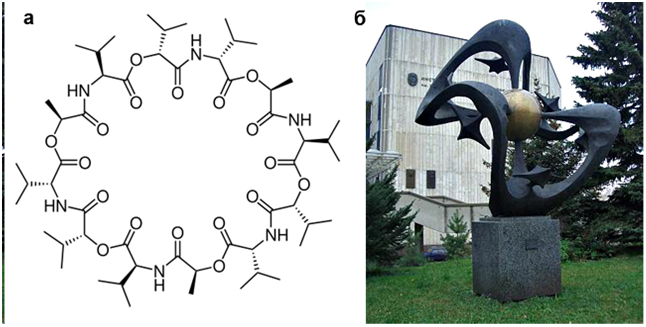 Վալինոմիցին և արձան